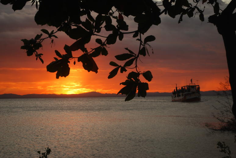 Lake Cocibolca, with ferry approaching Moyogalpa